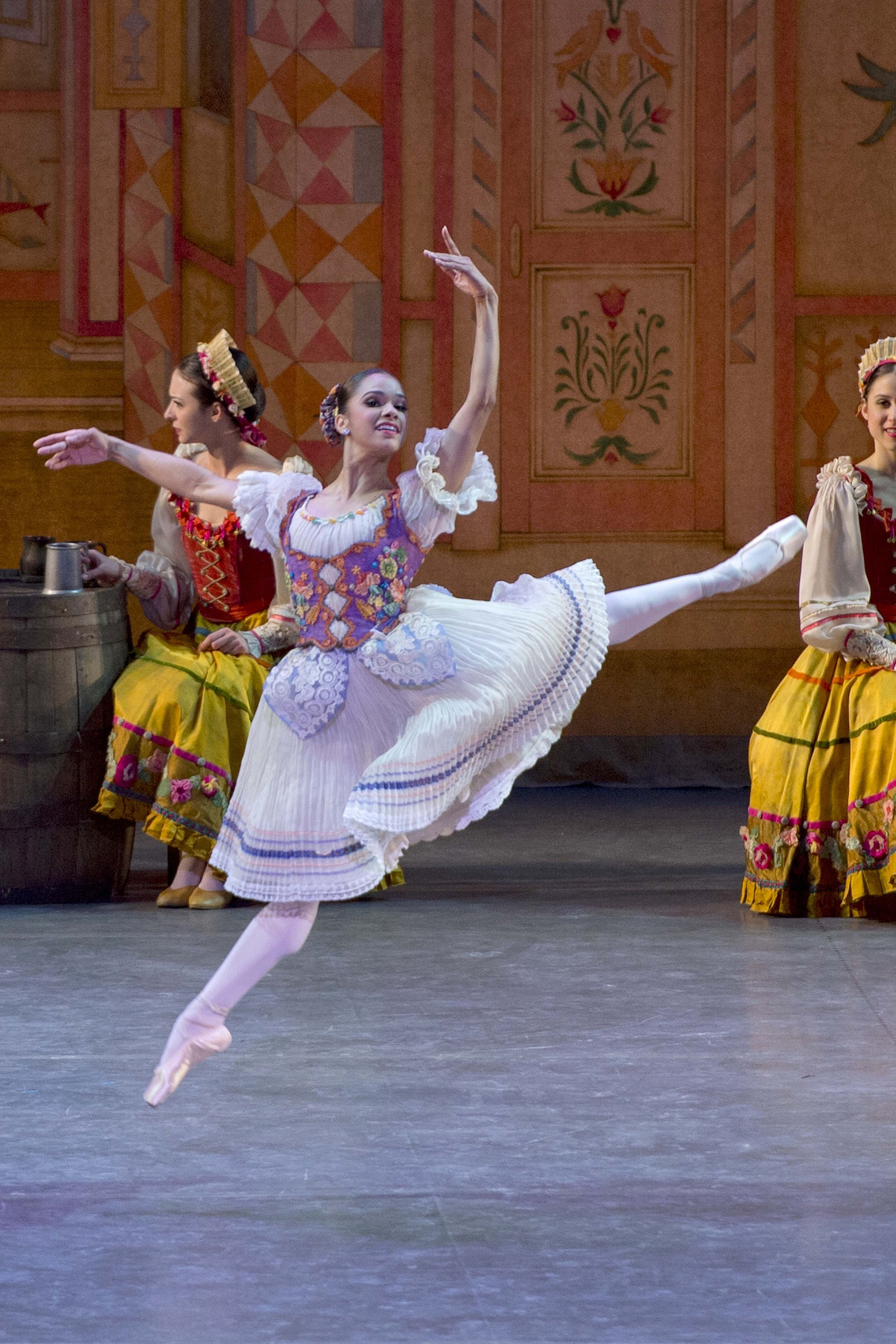 Misty Copland; Photo Credit: Naim Chidiac Abu Dhabi Festival